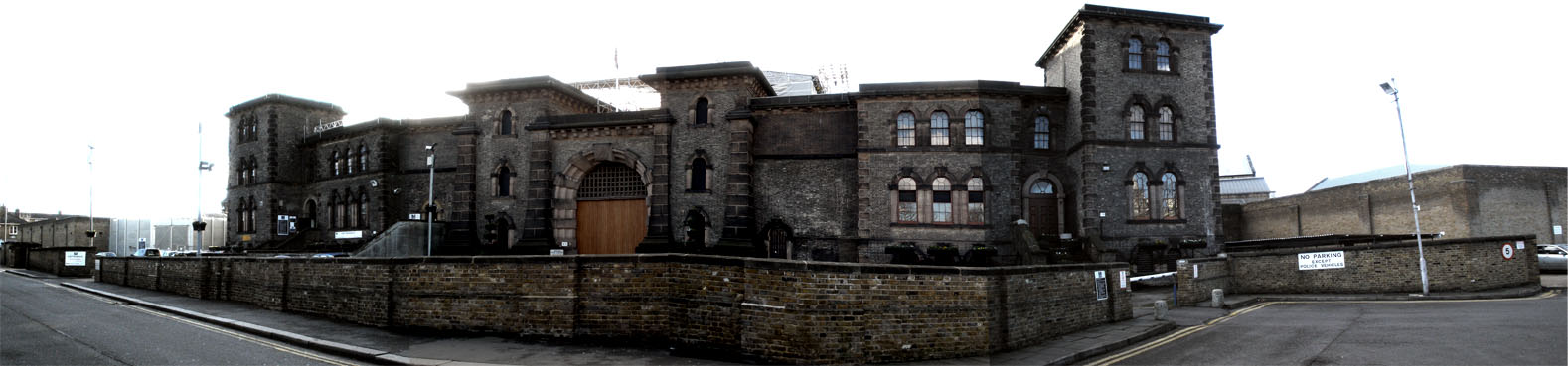 Panoramic photograph of Wandsworth Prison, stitched together (rather shoddily!) in Photoshop